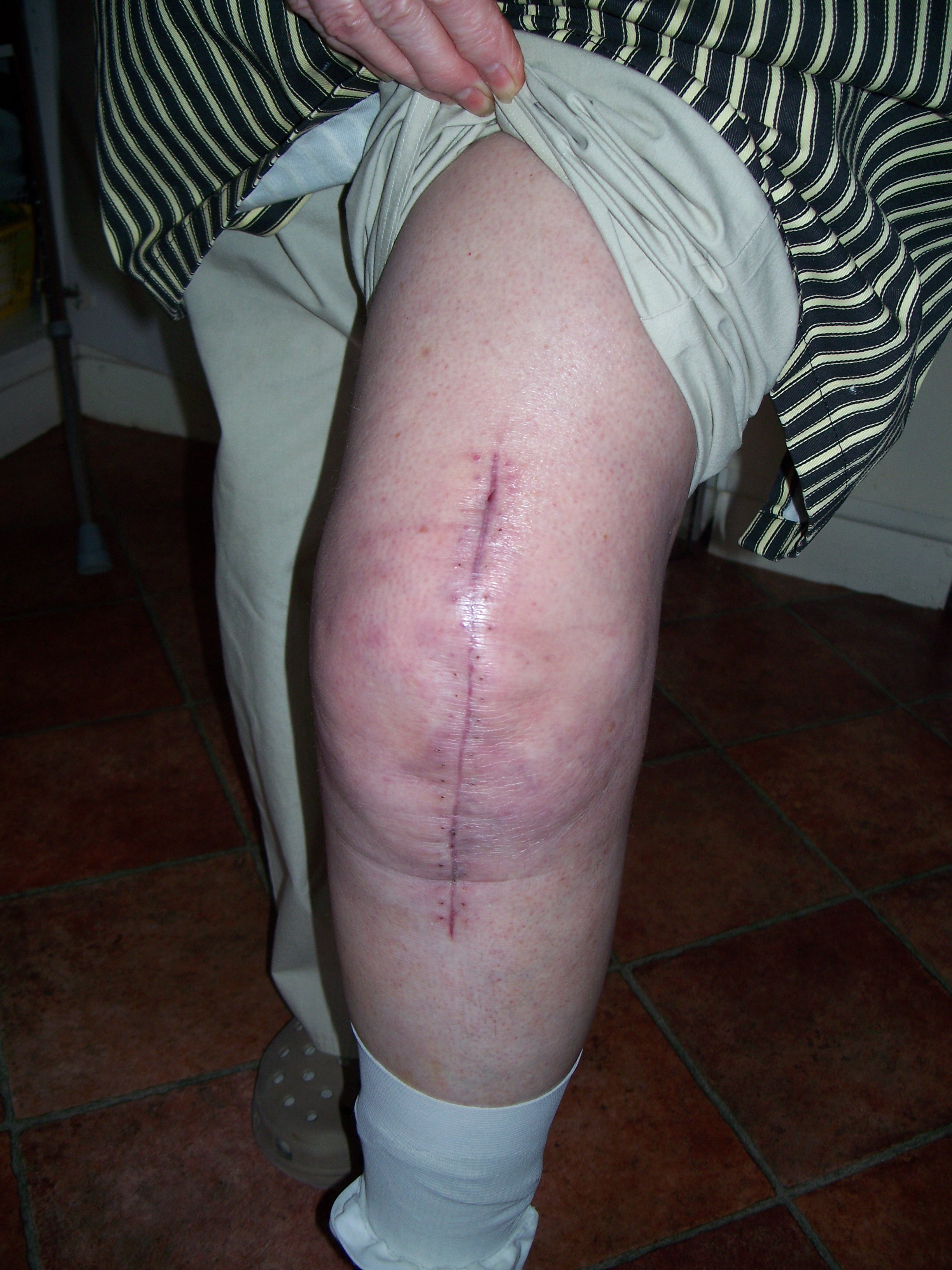 Total knee replacment scar in an elderly woman.